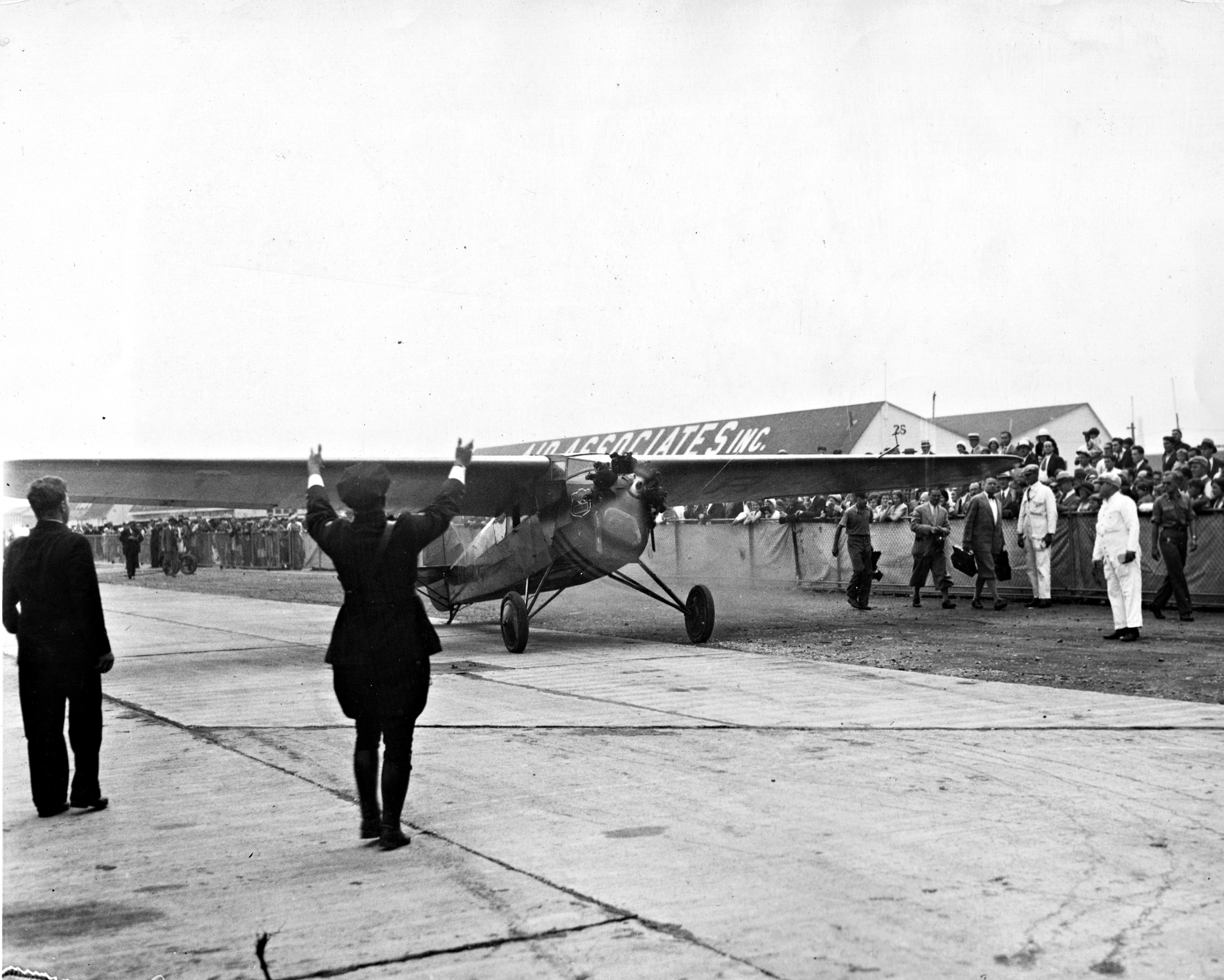 Eddie August Schneider landing at Roosevelt Field in 1930 after completing his transcontinental flight (300 dpi, 100 quality, adjusted)